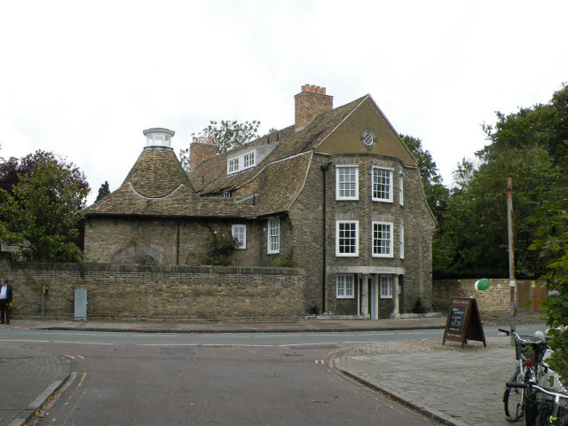 The Malting House was originally exactly that: a warehouse, Oast house, and small brewery owned, in the 1830s, by the Beales family – a well-known Cambridge trading dynasty. In 1909, the then Dean of Trinity College (Dr Stewart) bought the buildings and converted most of them into an Arts & Crafts house. The remaining buildings were converted into a small hall to host musical evenings; Albert Schweitzer gave a lecture on Bach there, and from 1955 it was the rehearsal base for the Cambridge Schools Holiday Orchestra. During the 1920s it was the Malting House School – one of the early ‘children’s community’ schools: no fixed curriculum, no discipline, and no punishments! Link Since 2003 is has been an accommodation block for Darwin College.